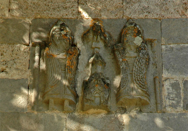 Haghartsin monastery. Armenia